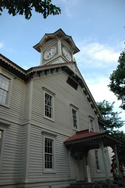 Sapporo Clock Tower, Hokkaido, Japan 札幌時計台、2005年7月撮影 Photographer ほくなん; this work is in PD